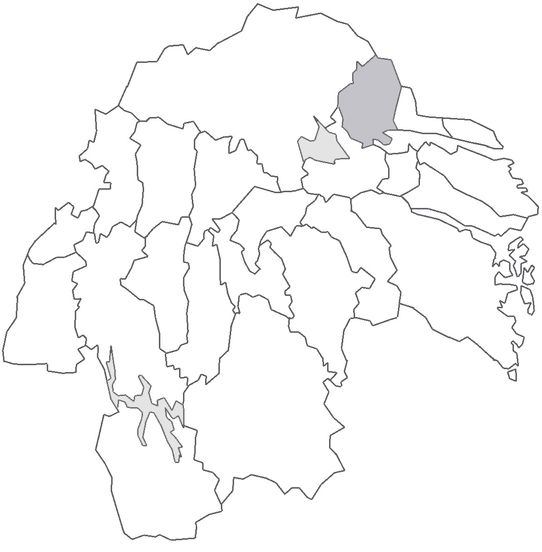 Map describing the location of Bråbo Hundred in Östergötland County, Sweden.